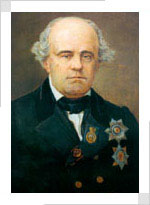 Dmitry Nikolaevich Bludov (1785–1864) russian minister